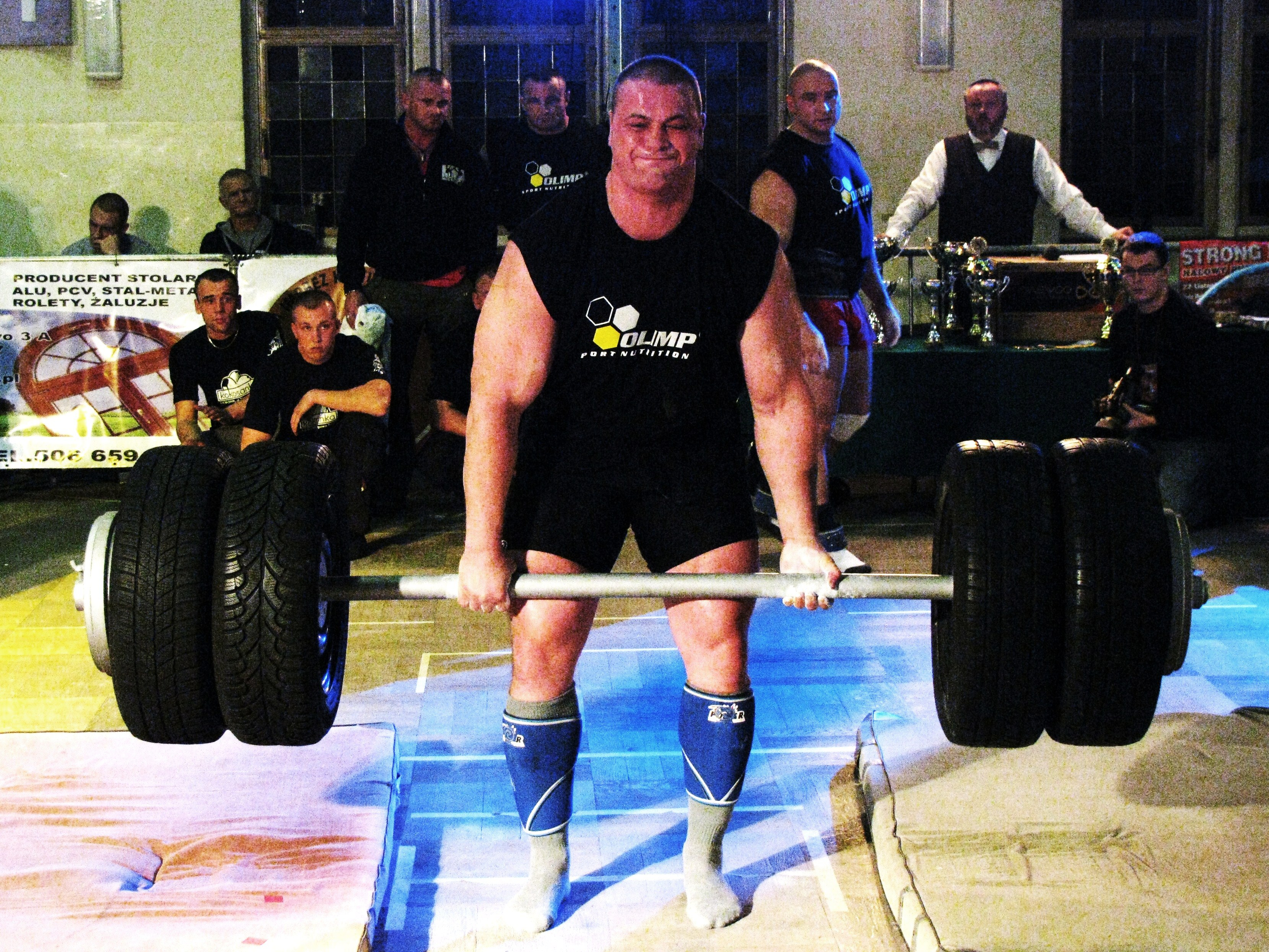 Tomasz Nowotniak - a strength athlete from Poland at Dead Lift.